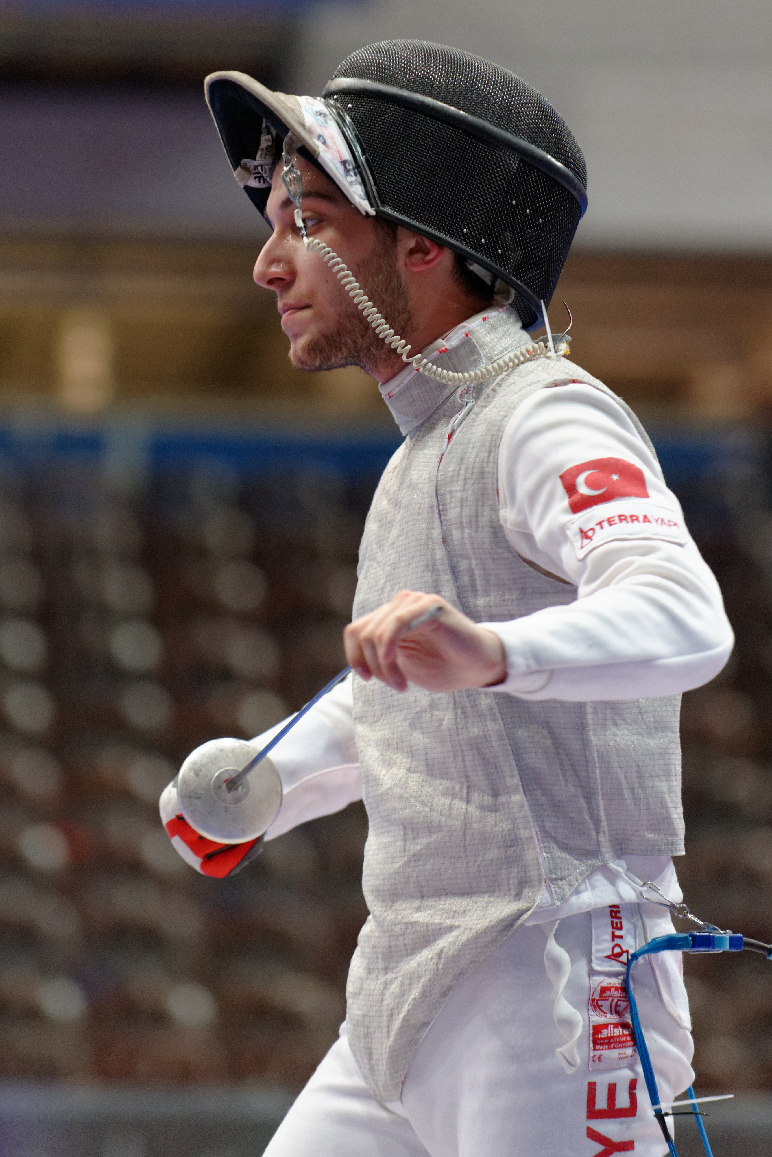 Turkey's Tevfik Burak Babaoğlu at the men's foil event of the 2013 World Fencing Championships 2013 at Syma Hall in Budapest on 9 August 2013.